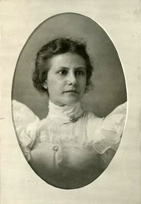 Clara H. Hasse (1880?-1926) was an assistant horticulturist and botanist in the Bureau of Plant Industry, U.S. Department of Agriculture, Washington, D.C., and later worked at the Florida Experiment Station.